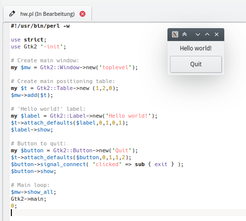 An example Hello world program, written in Perl and displayed with GTK+ 2.